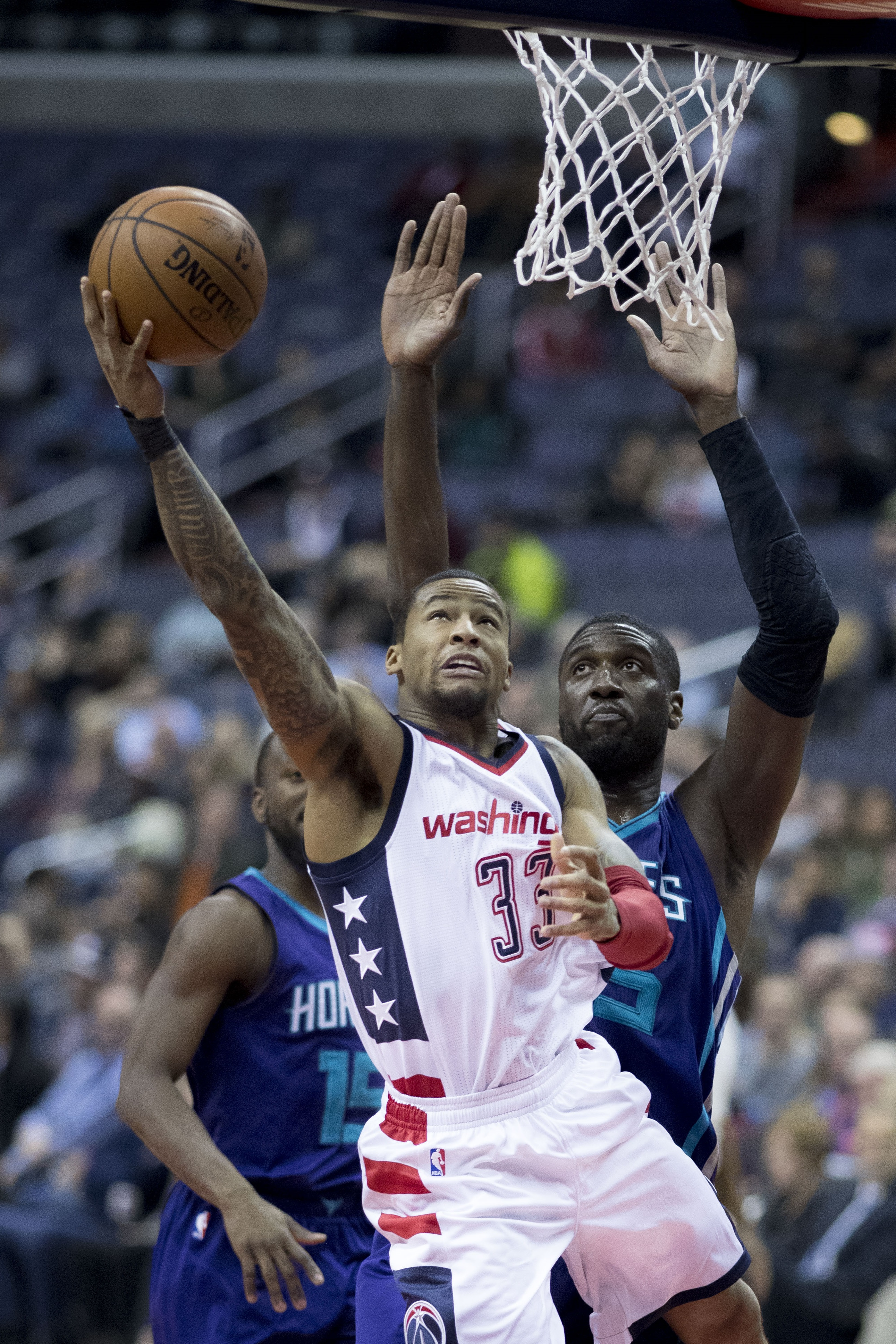 Hornets at Wizards 12/14/16